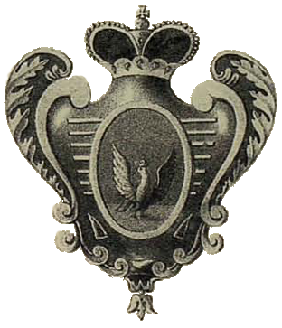 Suzdal's regiment coat of arms. 1730